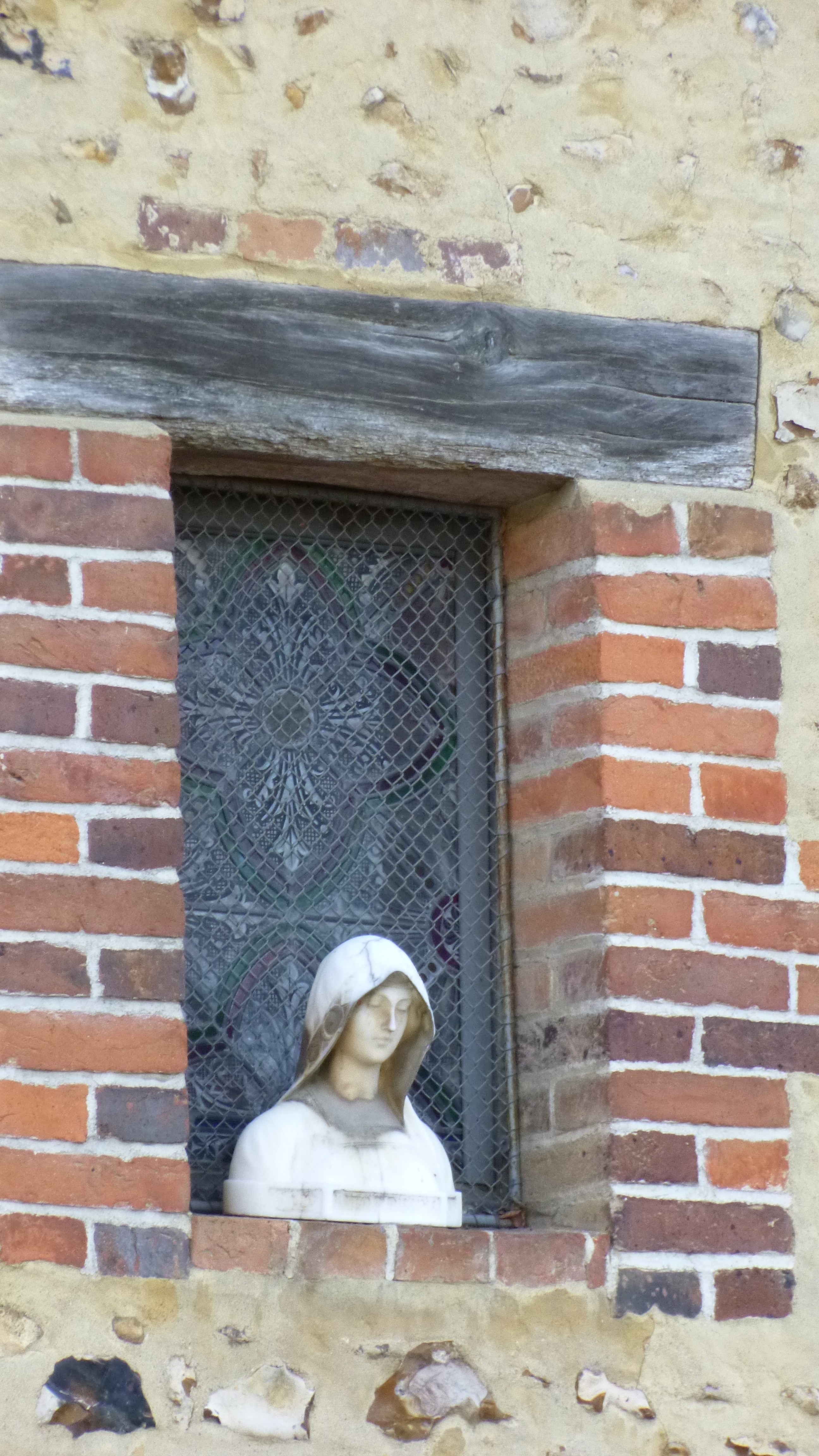 Champignelles, Yonne, Burgundy, France. At the corner of Rue du Lavoir and Rue Arsène Duguyot, on the presbytery window-sill, Virgin Mary looks over Welsch's Tiger sculpture